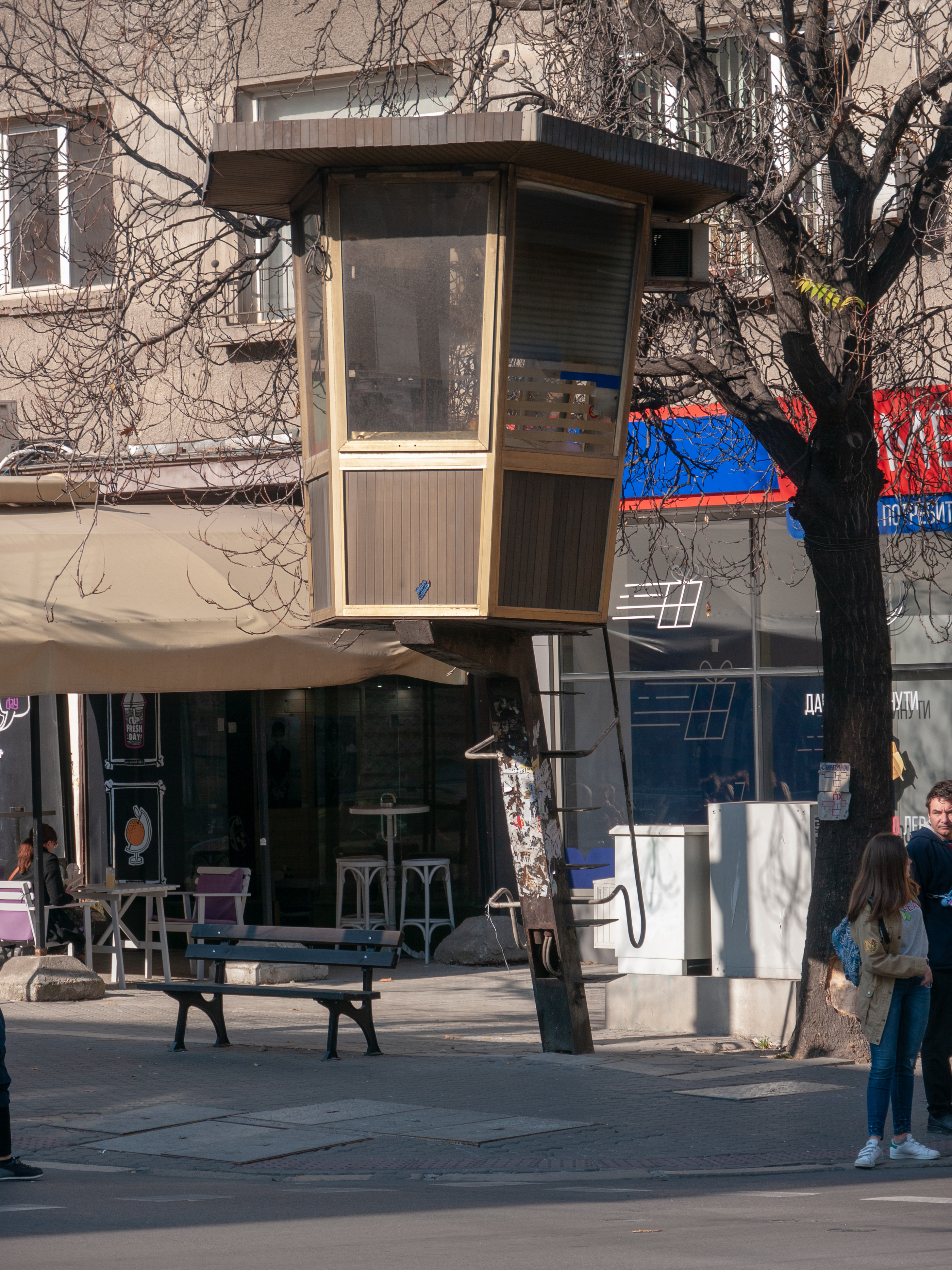 Sofia, Bulgaria